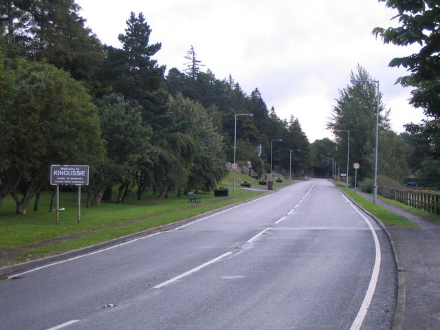 Approaching Kingussie from the west The A86 from Newtonmore.